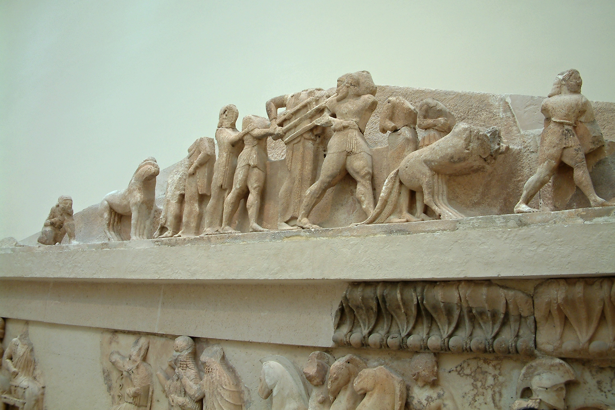 Apollo struggling with Heracles on a tripod. The eastern pediment of the Treasury of Siphnians at Delphi, 525 BC. Archaeological Museum of Delphi.